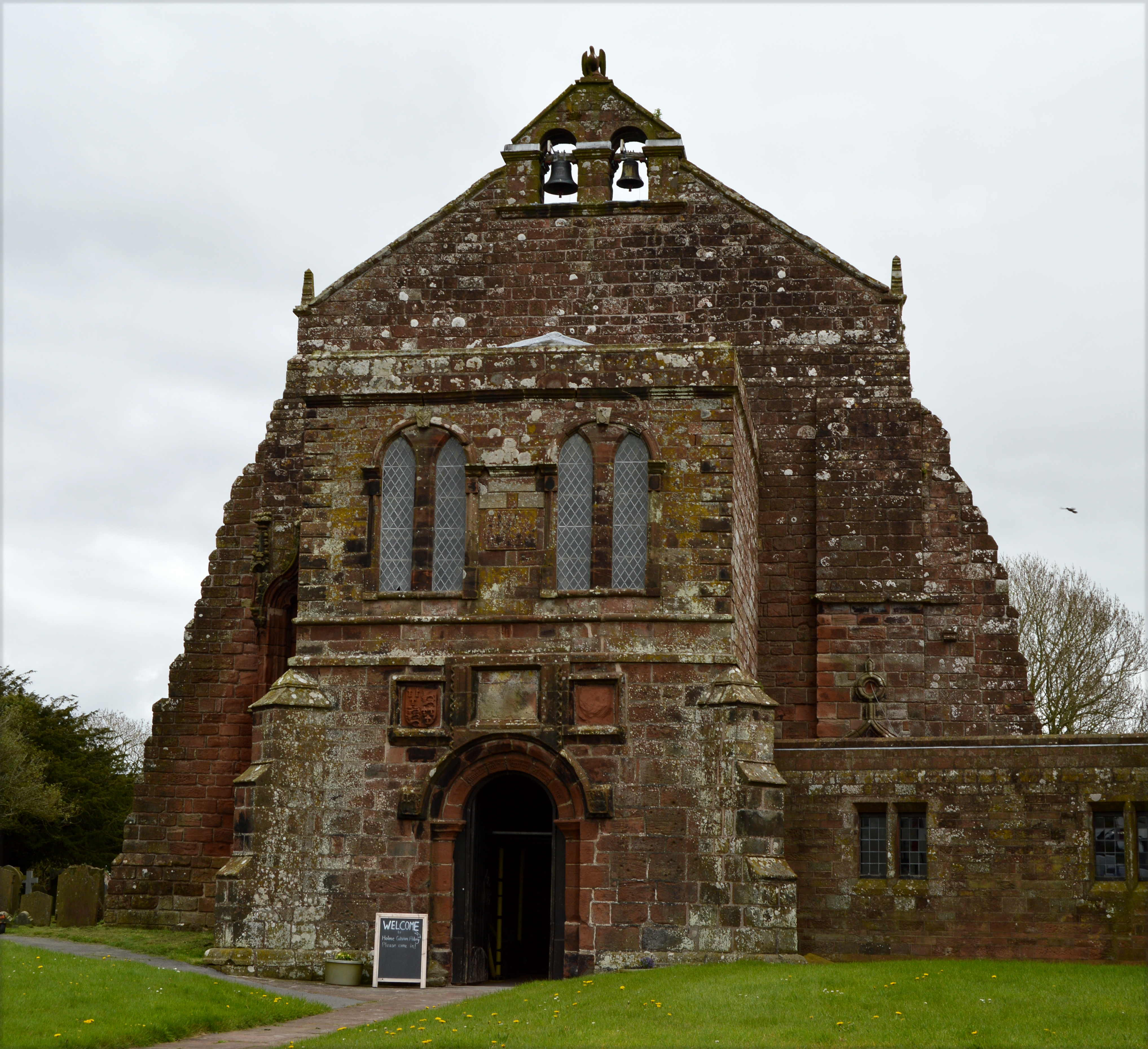 Holme abbey west end